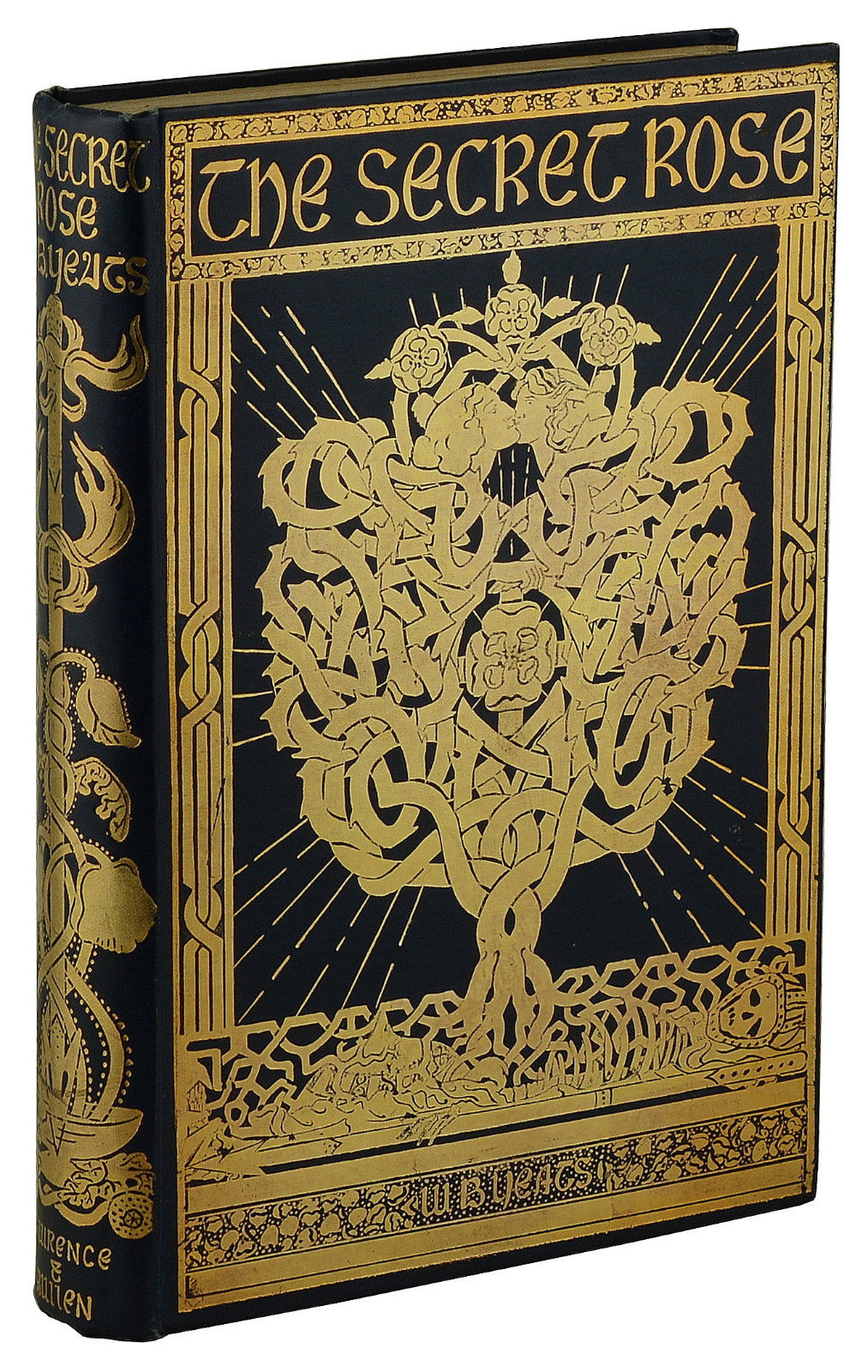 Cover of W. B. Yeats's book *The Secret Rose*, designed by Althea Gyles, first published 1897